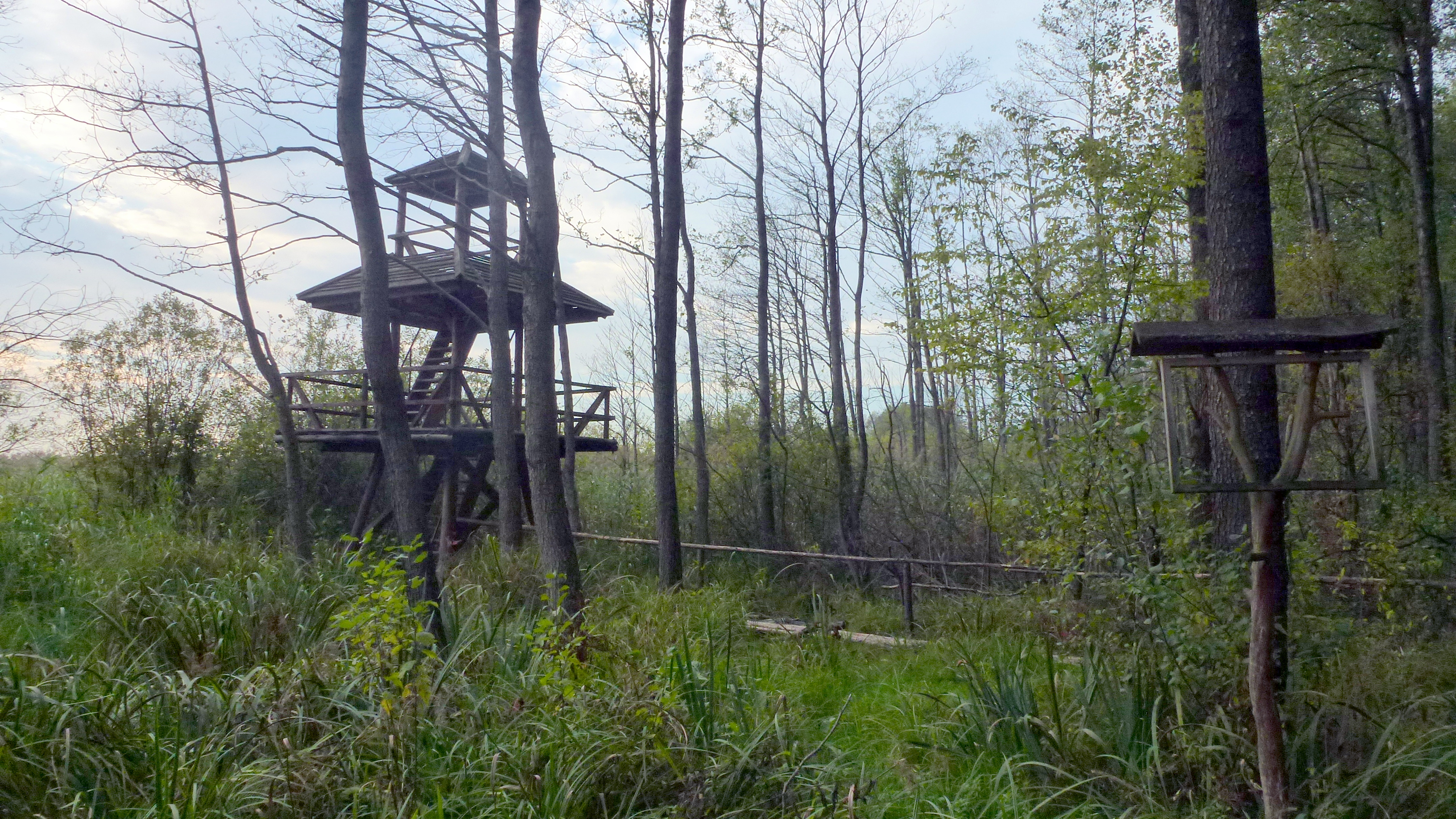 Żółwiowe Błota nature reserve, Poland